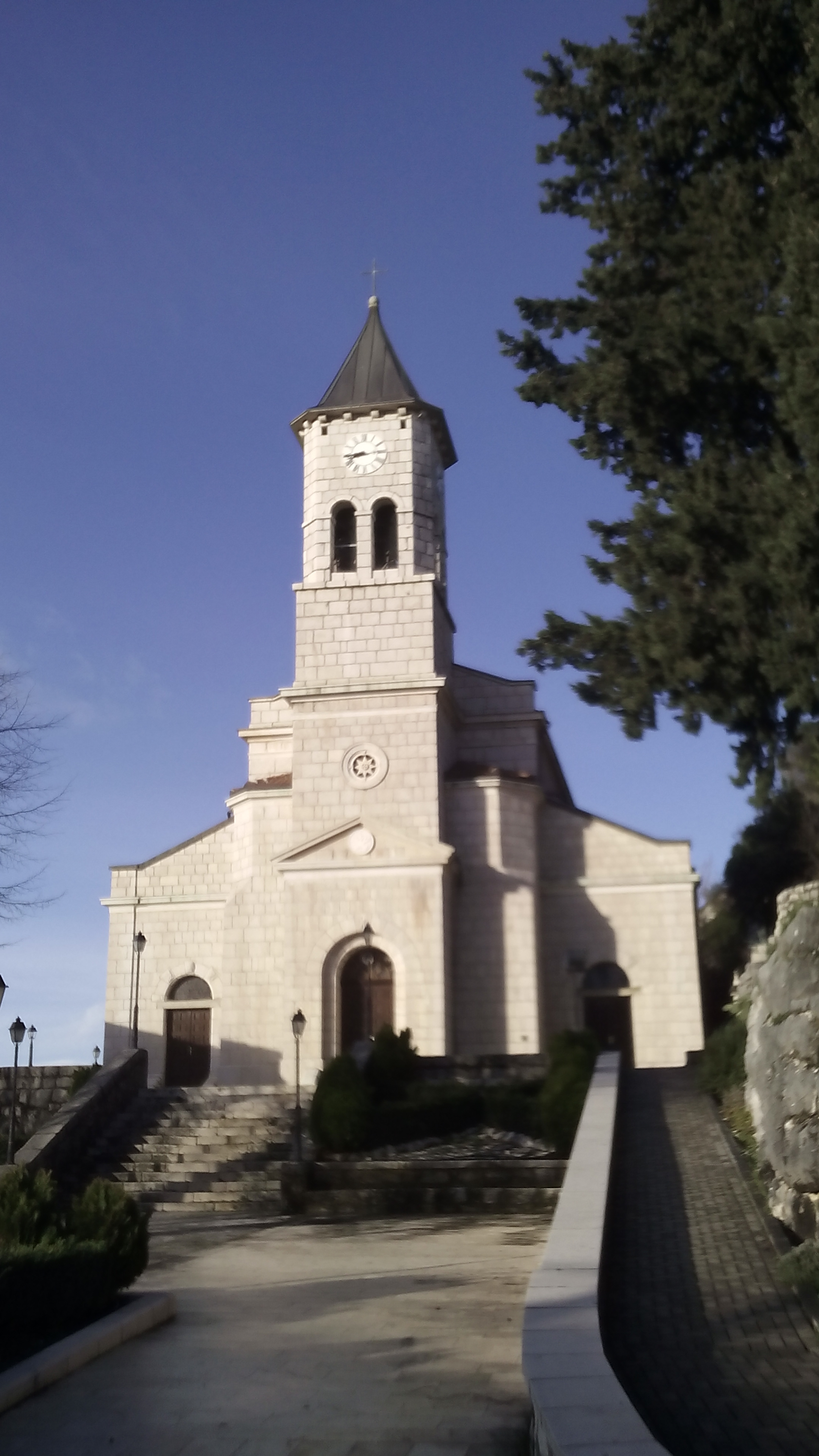 Annunciation church in Vrgorac